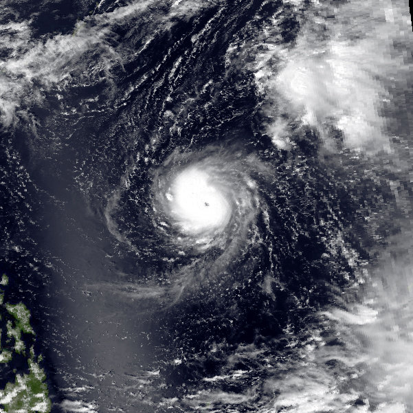 Super Typhoon Angela on October 2, 1989 with winds of 135 mph and a pressure of 940 mbar.